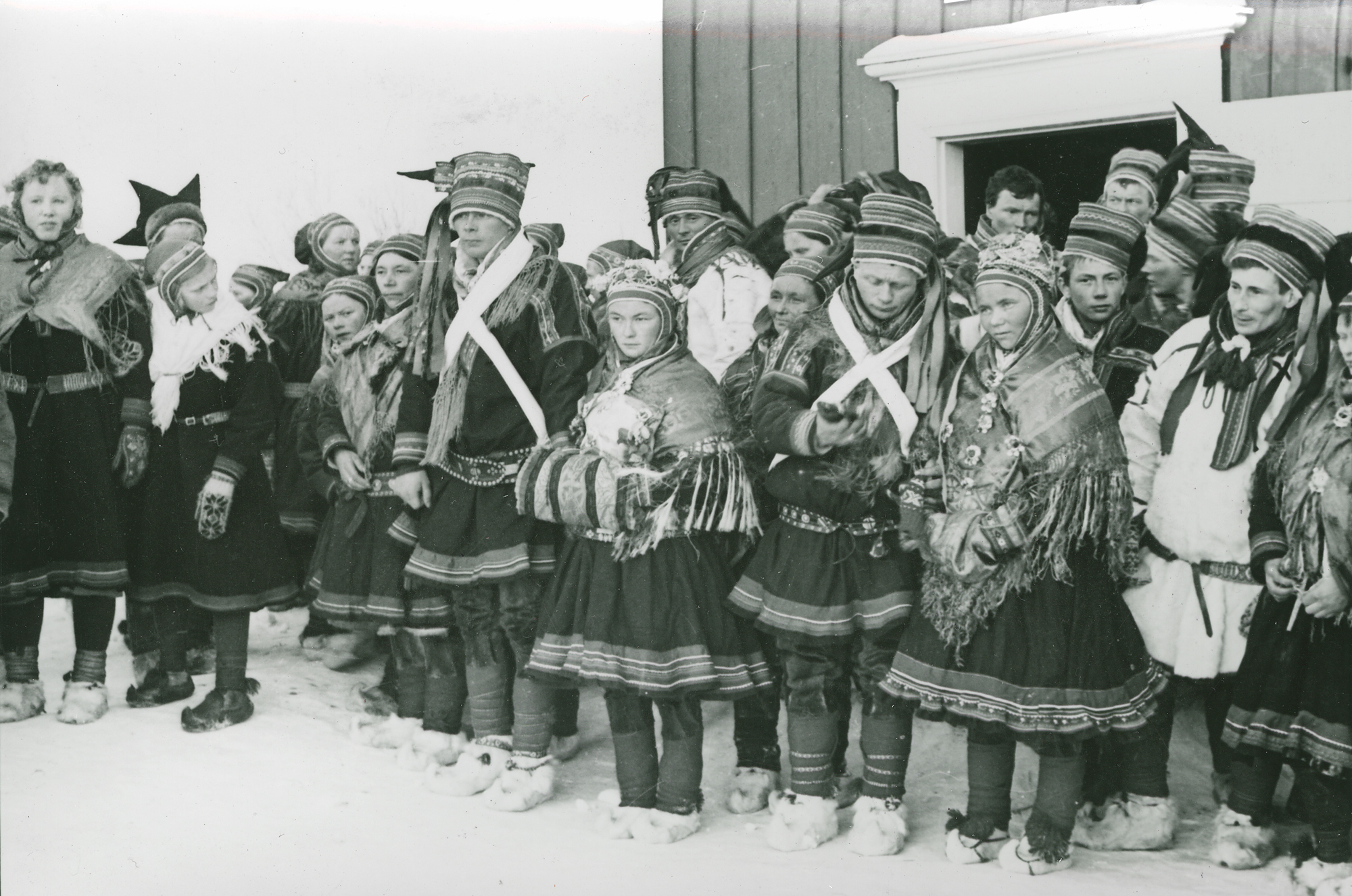 Meyer, Elisabeth Group of sami in traditional costumes in front of a house. Gelatin silver print, baryta NMFF.002541-4